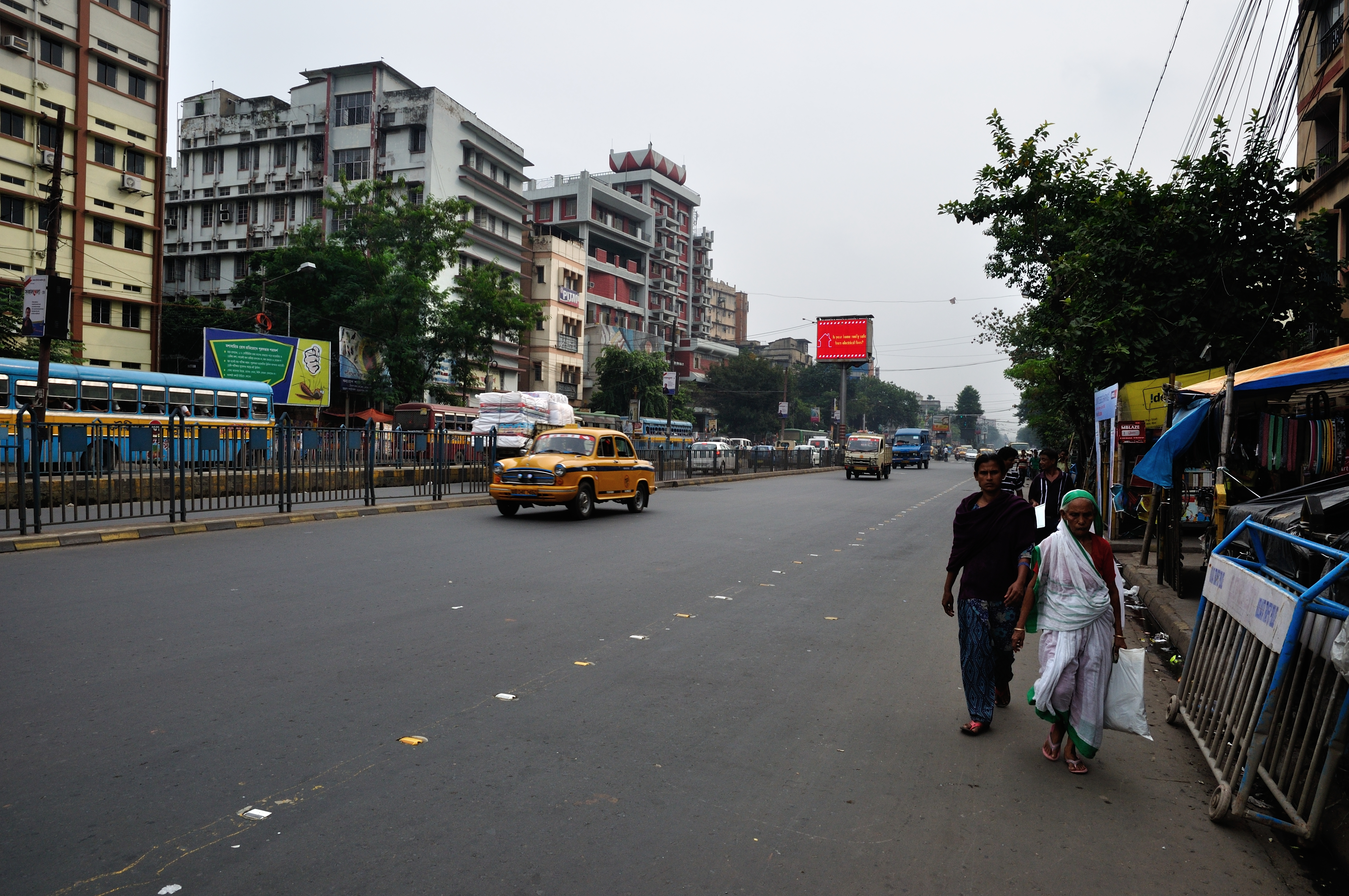 Photographed in Kolkata, India.